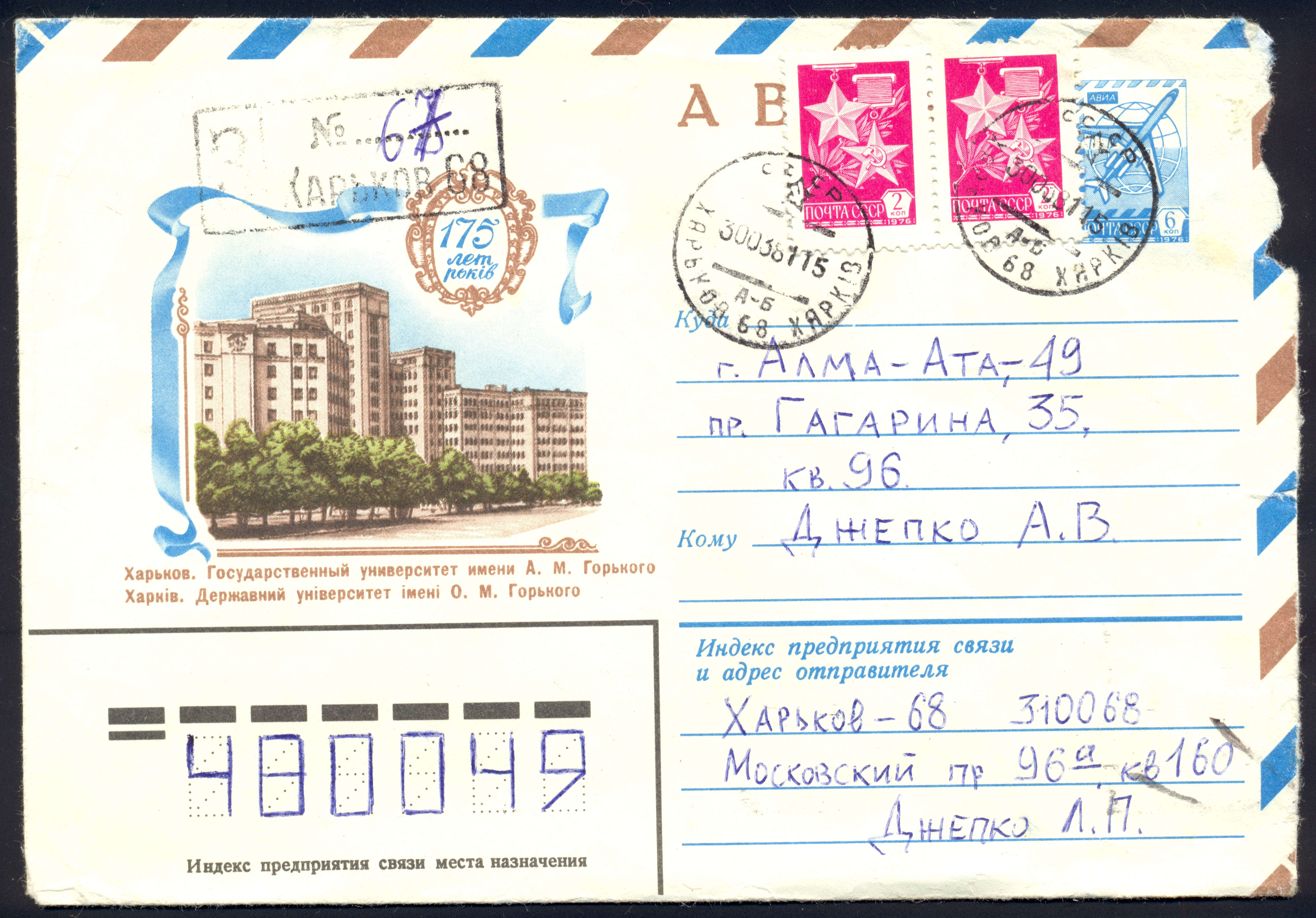 USSR postal stationery - stamped cover marking 175th anniversary of Kharkiv University with two definitive 1976 USSR stamps and registered letter postmark and calendar postmark dated 30 March 1981.